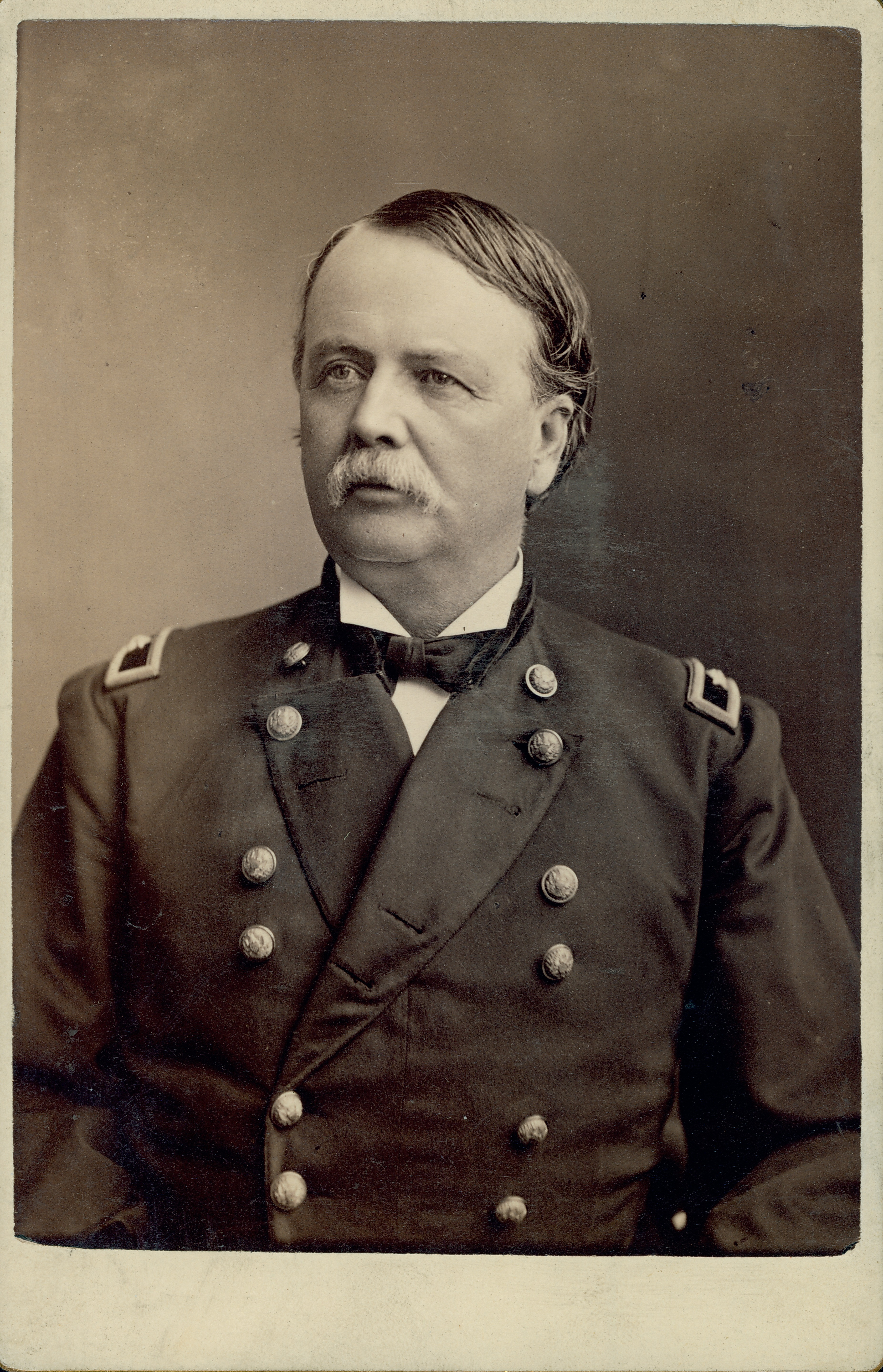 Half-length portrait of John Pope in uniform, with his head turned slightly to the left. Title: John Pope, Major General, U.S. Army (retired).